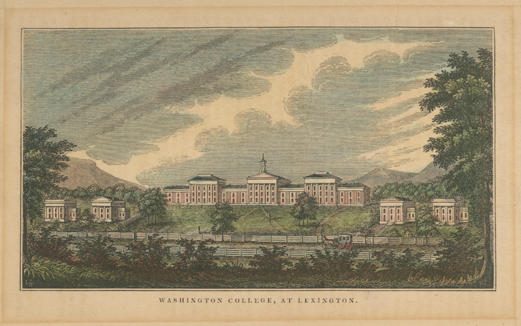 "Washington College at Lexington," lithograph, by Henry Howe. Courtesy of the New York Public Library Digital Collection.